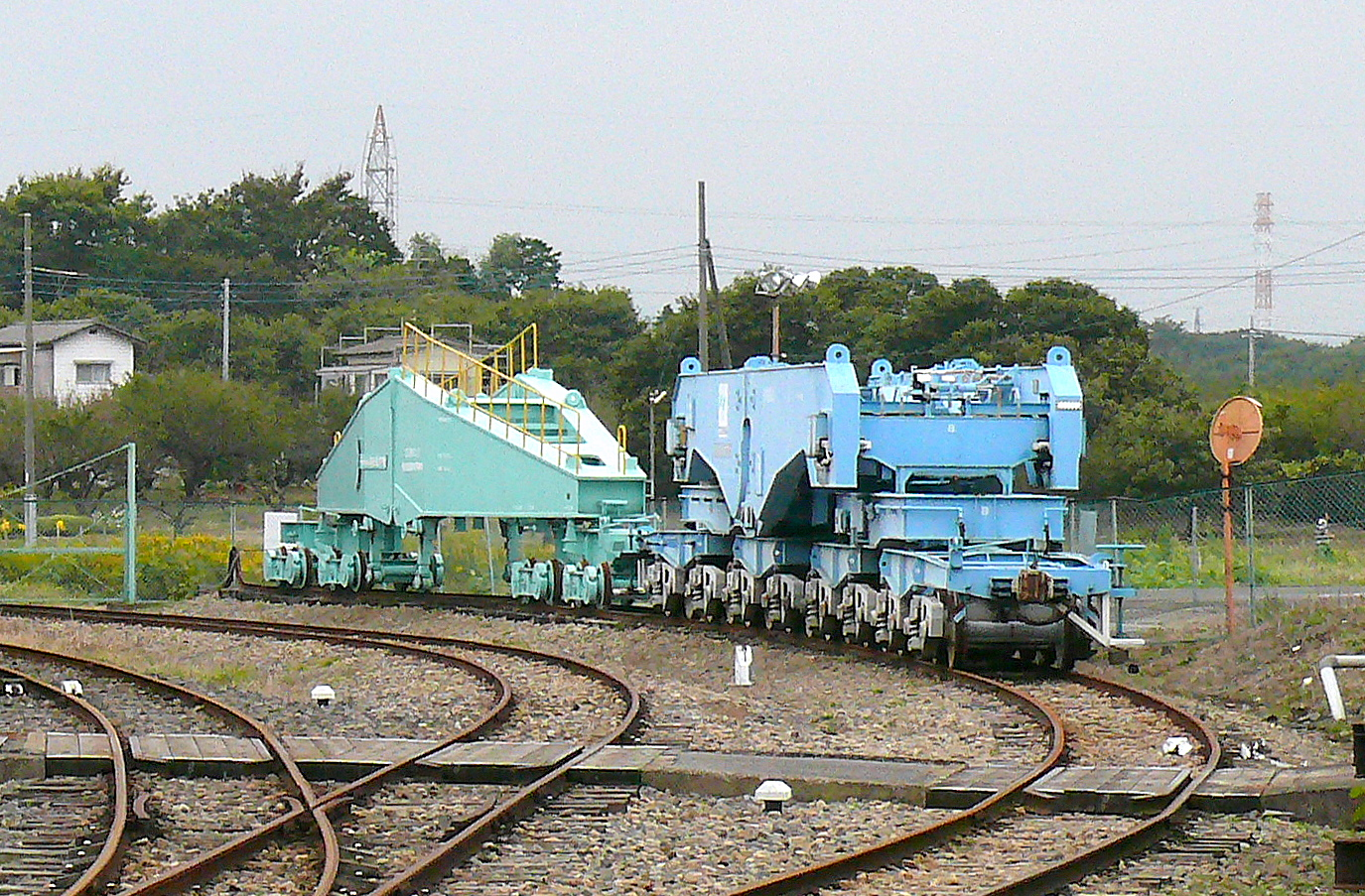 JR Freight Shiki 800 Schnabel car Shiki 810 in Japan